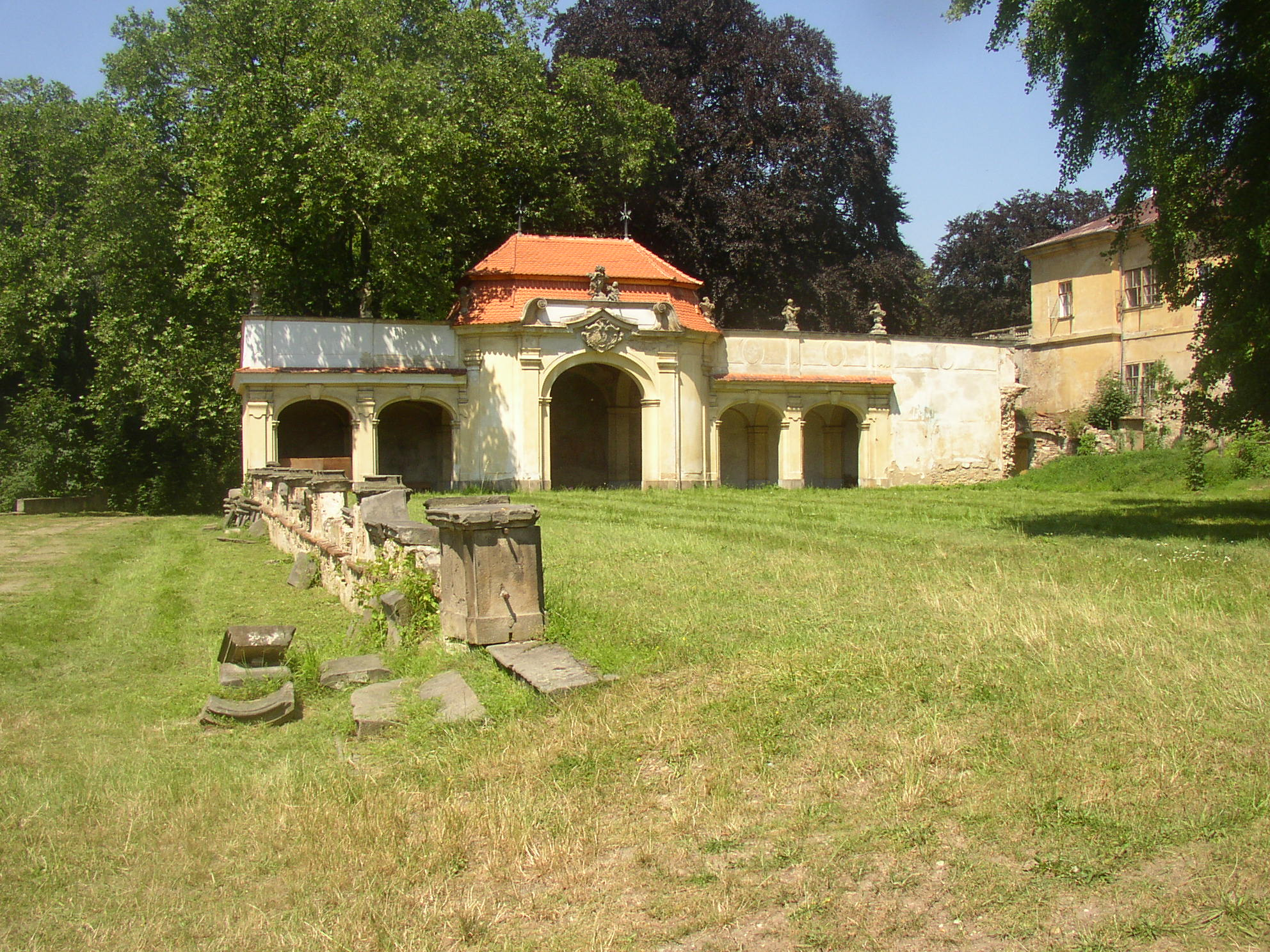 Arcade pavilion from 1756 in garden of female Premonstratensian convent in Doksany, Litoměřice District, Czech Republic. A view from the southeast.